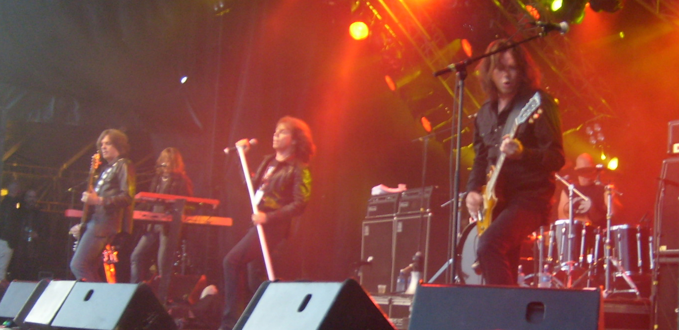 Europe live at Midnattsrocken in Lakselv, Norway on July 13, 2008. From left to right: John Levén, Mic Michaeli, Joey Tempest, John Norum and Ian Haugland. Photographer: Stein-Vidar Andersen (Aphasia83 on Wikipedia and Wikimedia Commons)